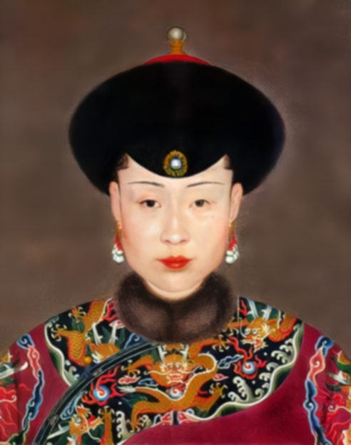 Empress Xiao He Rui, Consort to the Jia-Qing Emperor